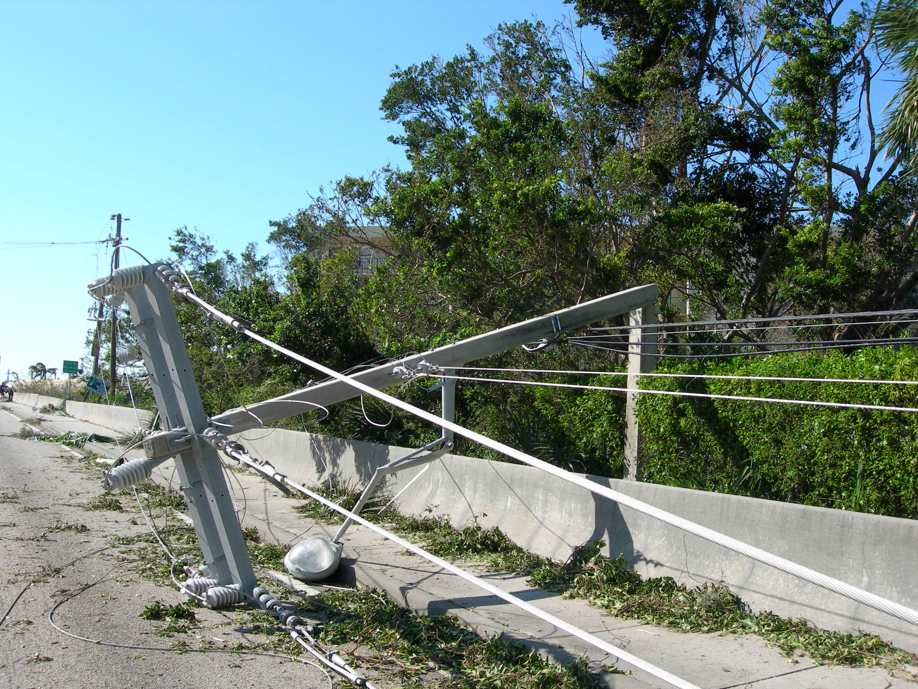 Concrete power pole collapsed in the wake of Hurricane Wilma in Boca Raton, Florida; taken by Daniel R. Tobias on October 25, 2005.